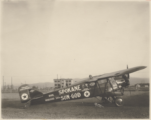 Buhl CA-6 Air Sedan. "Spokane Sun God". Art Walker co-pilot at the refueling hole. Nick Mamer was the pilot. Felts Field 1929 Rutter, East - 5100